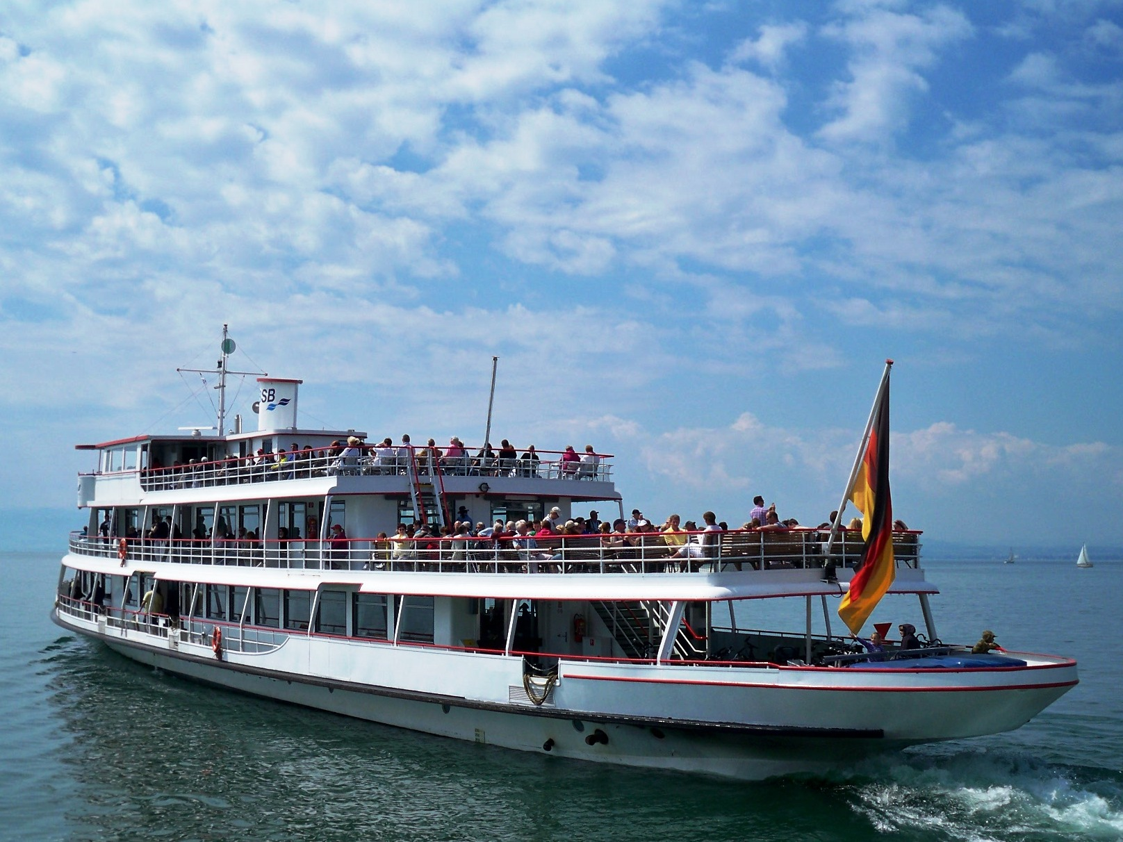 Passengership Karlsruhe departs the port of Friedrichshafen